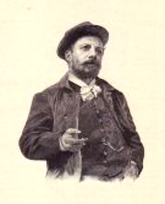 Portrait of Henri Boutet (1851-1919)